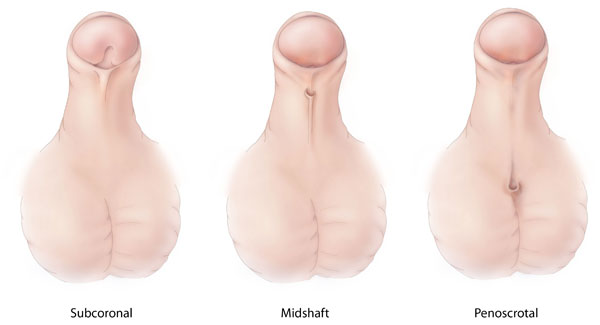 Different types of hyposadias